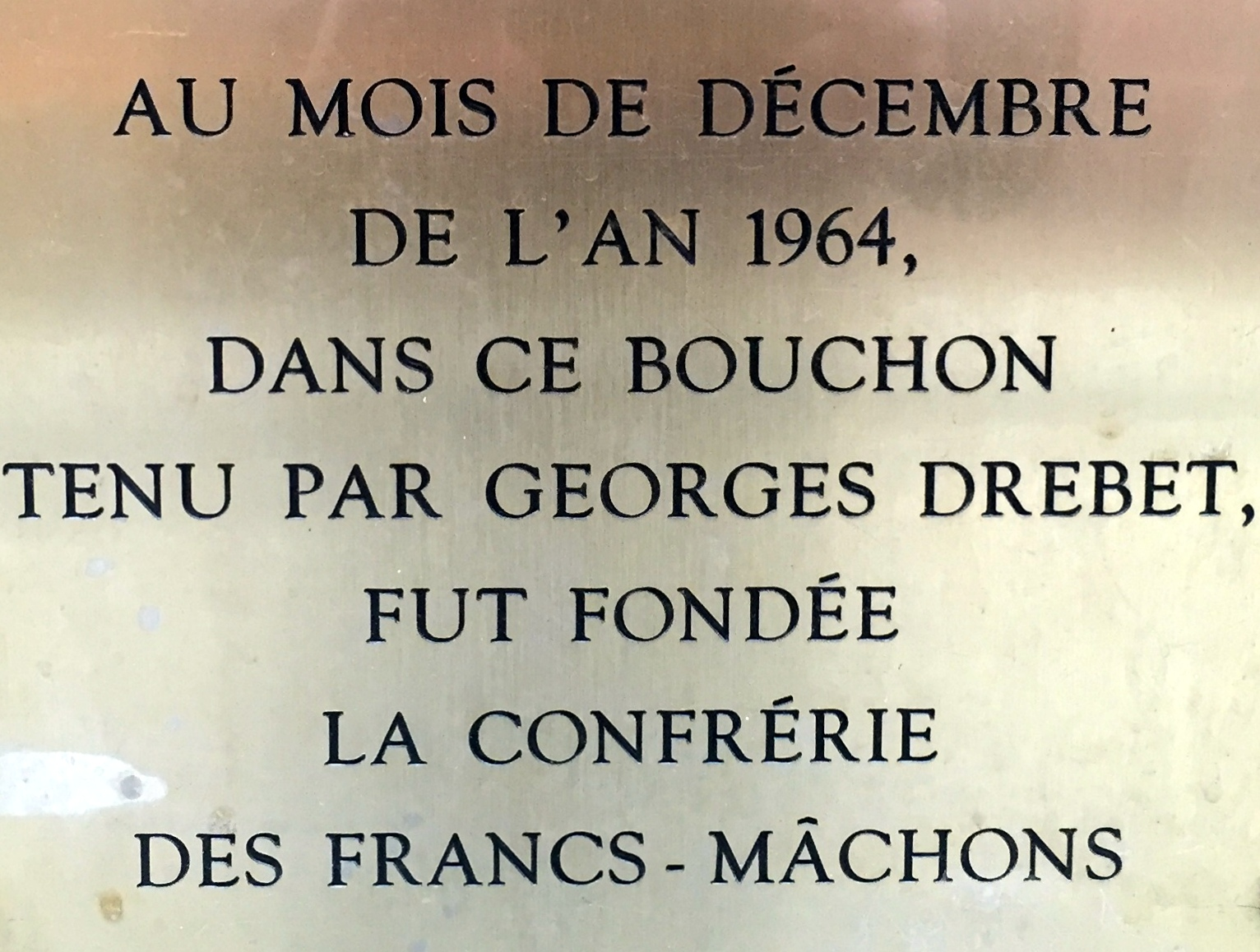 This photograph was taken with an iPhone 6